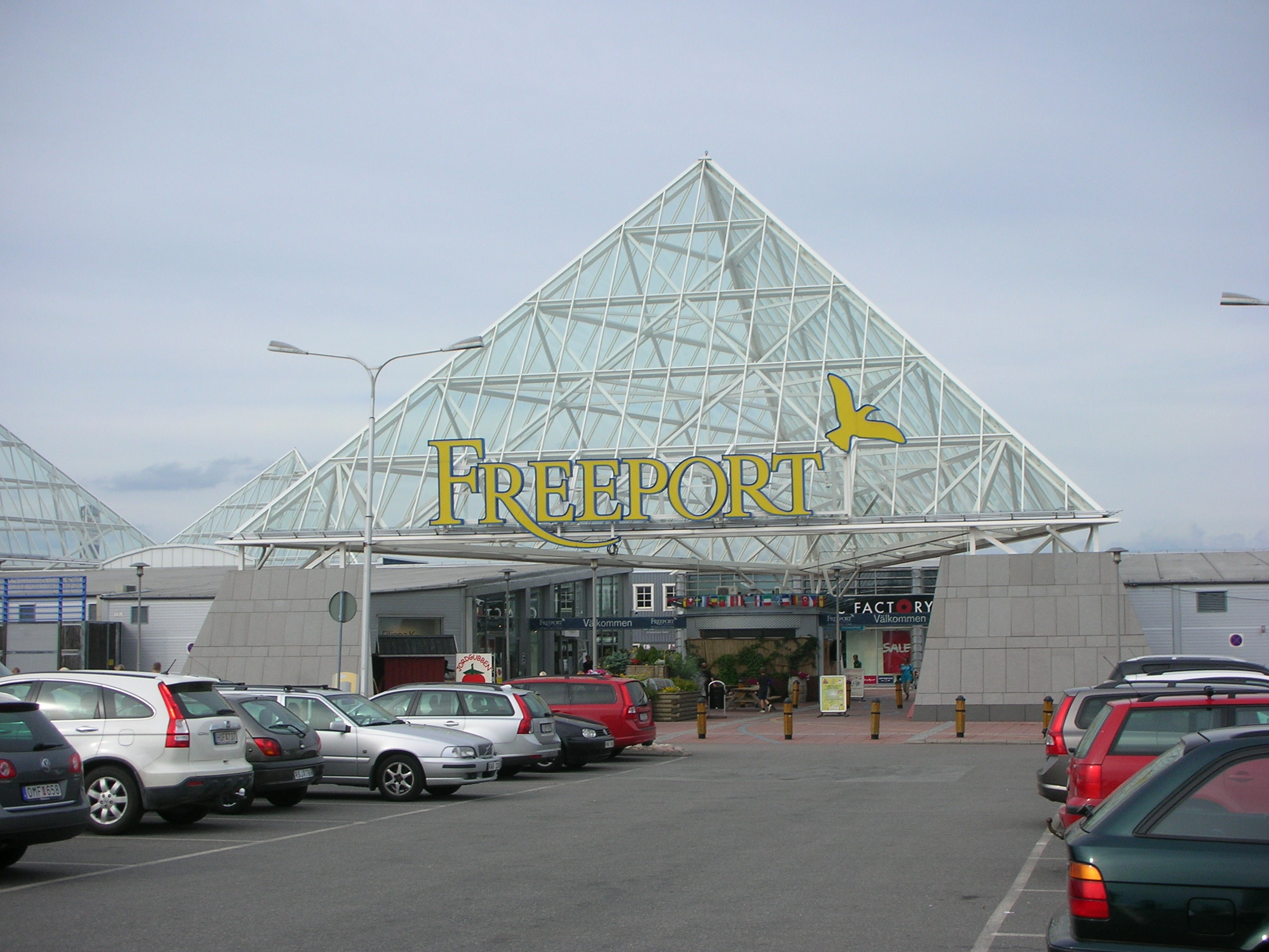 Freeport outlet in Kungsbacka, Sweden.